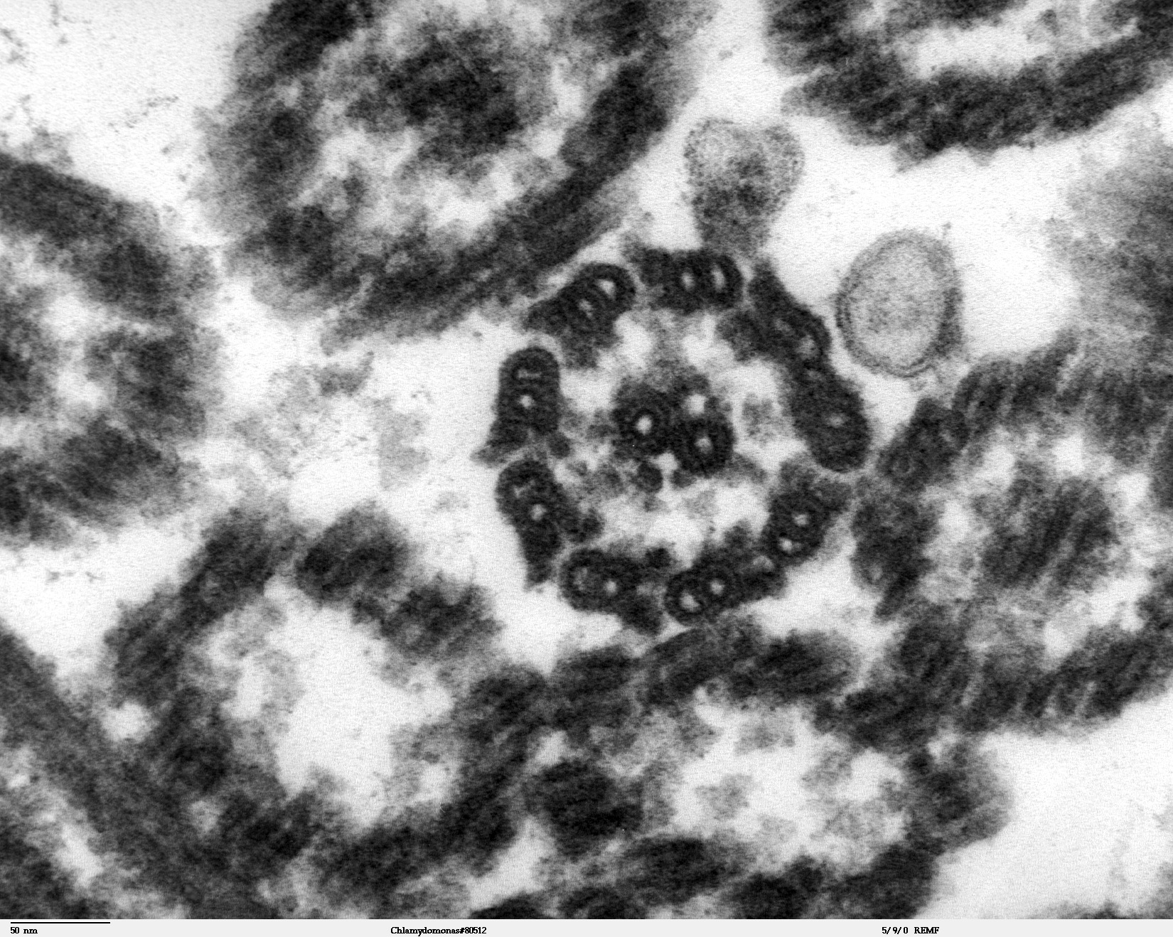 Transmission electron microscope image, showing an example of green algae (Chlorophyta). Chlamydomanas reinhardtii is a unicellular flagellate used as a model system in molecular genetics work and flagellar motility studies. This image is a thin x-section cut through the isolated axoneme. Chlamydomonas flagella have the "9+2" structure characteristic of all eukaryotic cells. The axoneme has a central unit containing two single microtubules and nine peripheral doublet microtubules (known as the "9+2"). Dynein sidearms project from the A tubule of each doublet. Also visible in this image are the radial spokes and the inner sheath.